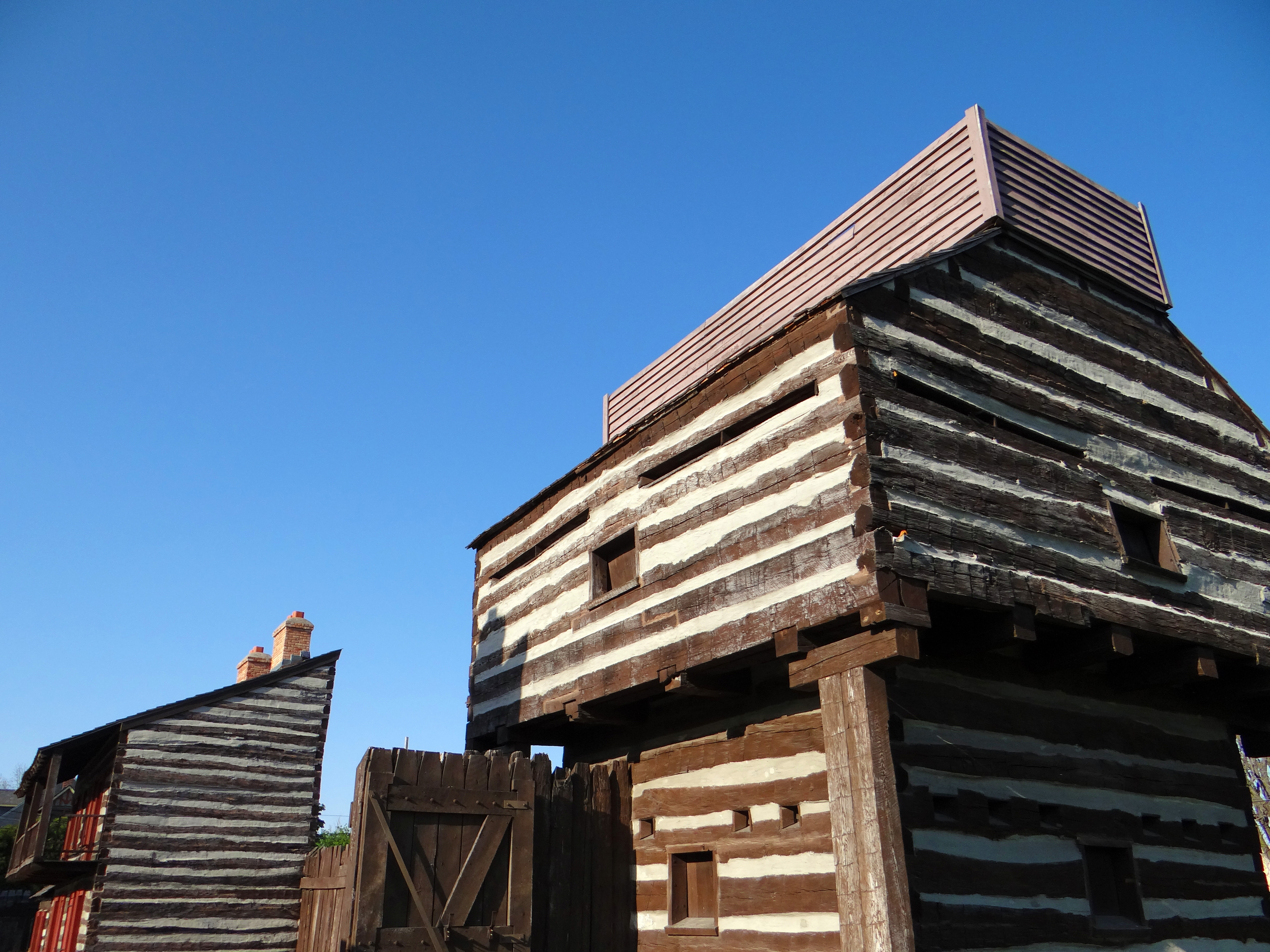 One of the blockhouses on the site of Historic Fort Wayne in Fort Wayne, Indiana.